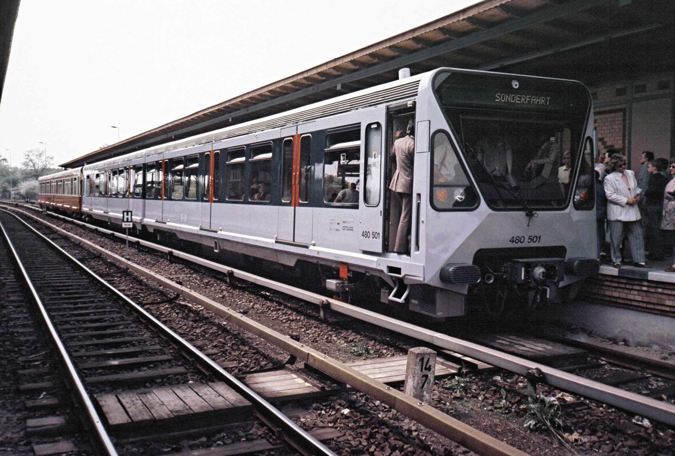 S-Bahn Berlin train type 480 in chrystal blue paintwork at Grunewald train station; West-Berlin